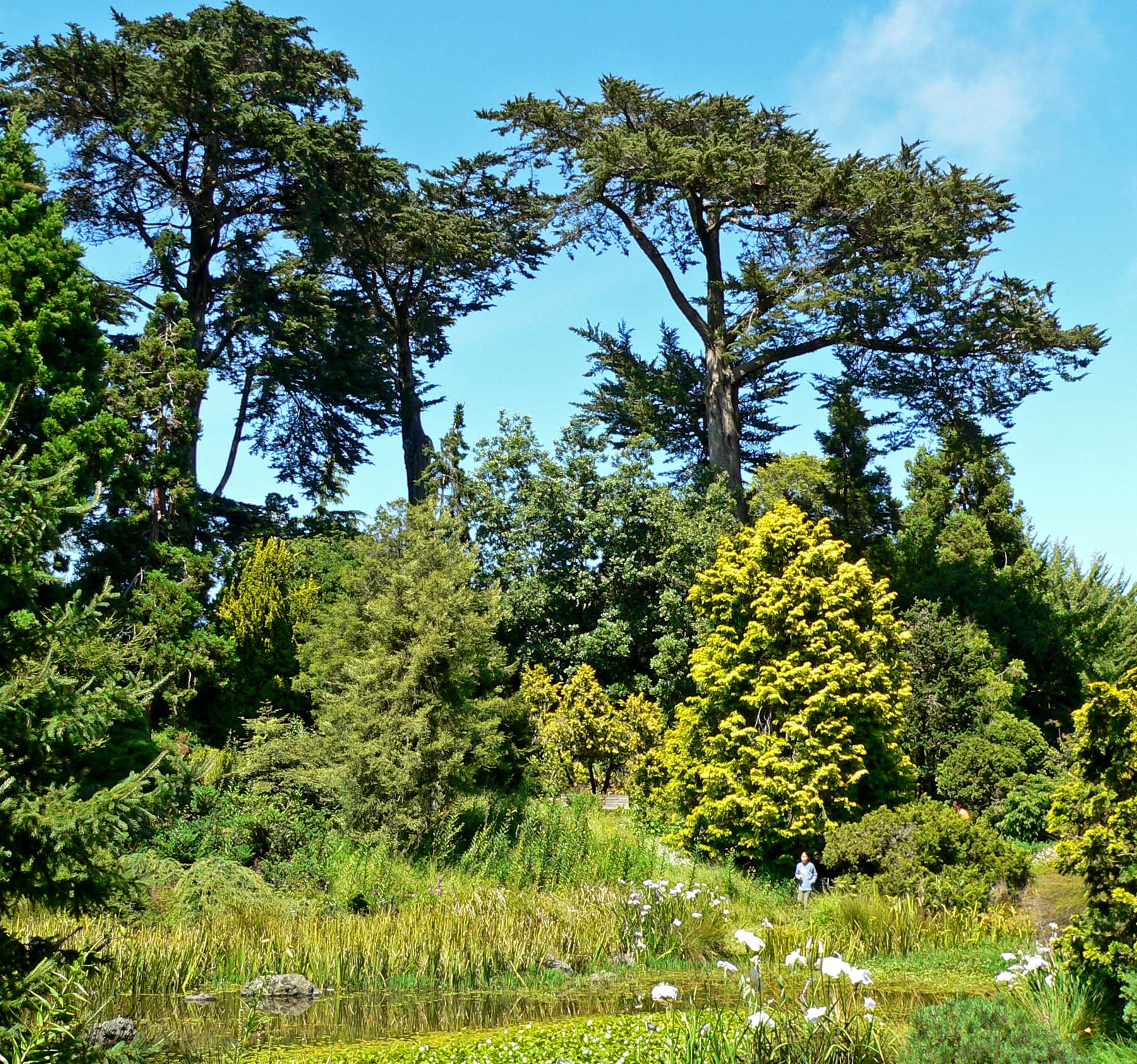 Photo of San Francisco Botanical Garden cypresses and lily pond